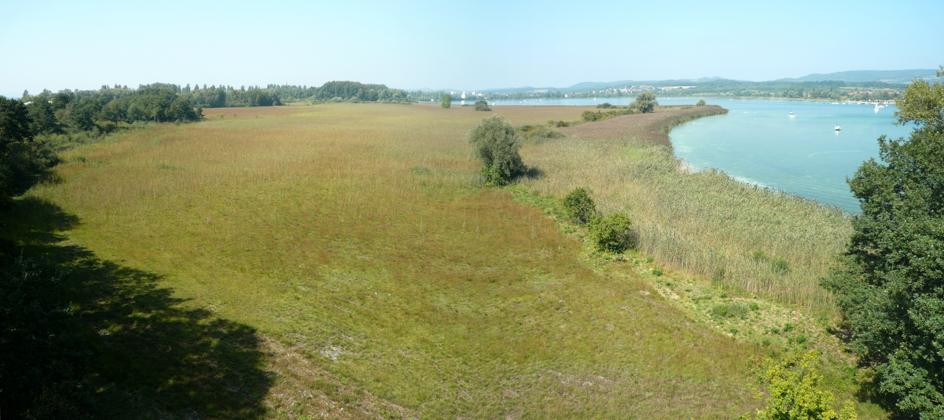 Peninsula Mettnau near Radolfzell